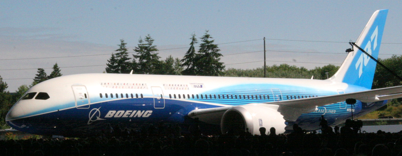 Boeing 787 Dreamliner